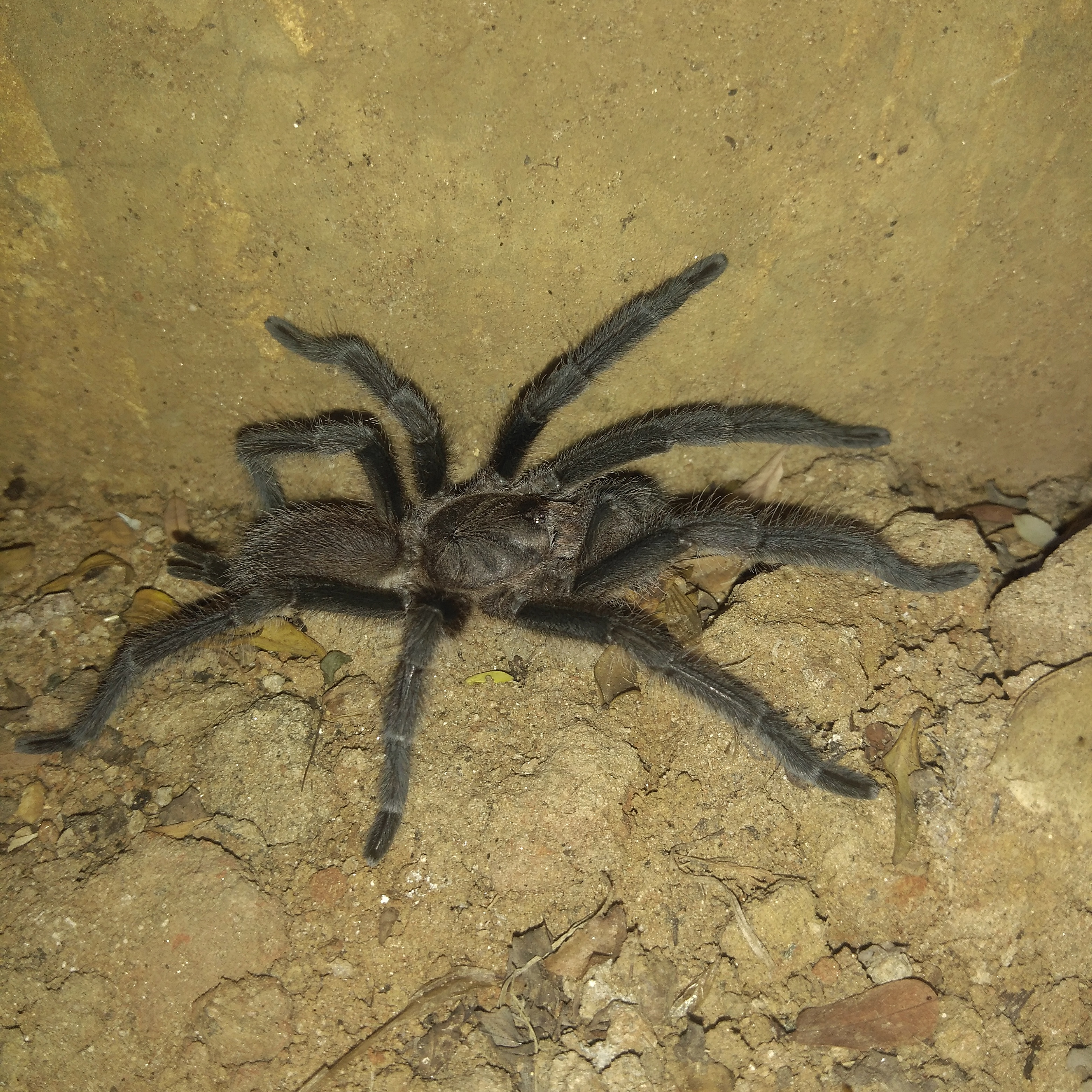 A spider of the genus Chilobrachys, in the family Theraphosidae, the tarantulas. The spiders of this genus are found in south and east Asia. This was found in Bankura, West Bengal, India.